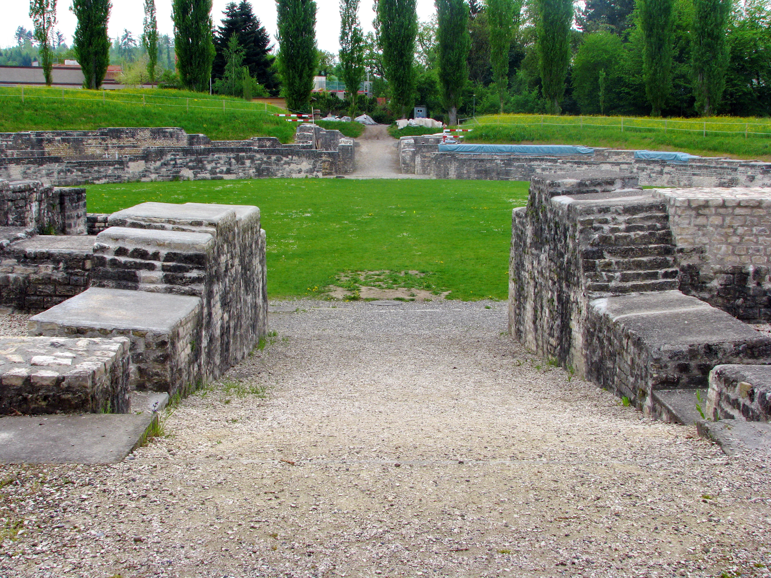 Amphitheatre in Windisch (Switzerland)